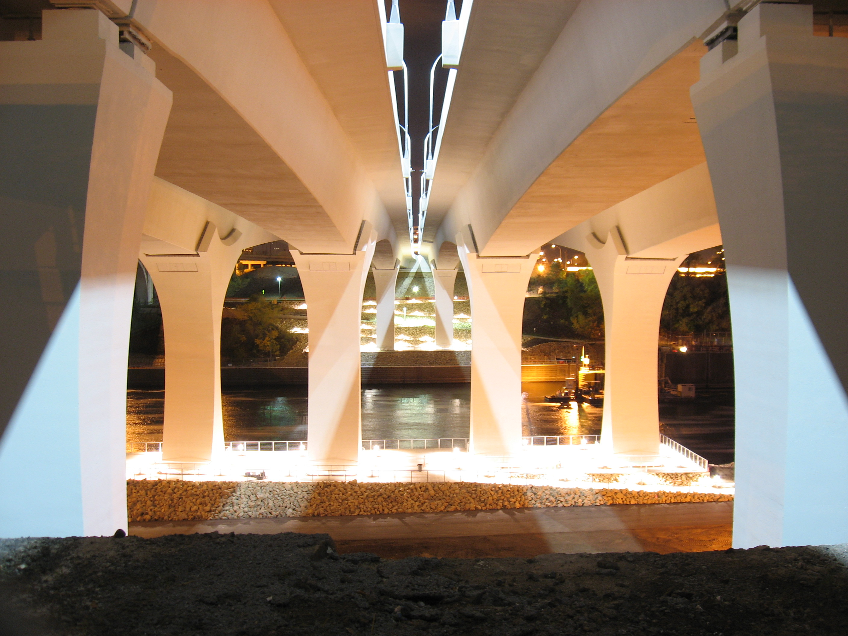 What it used to look like